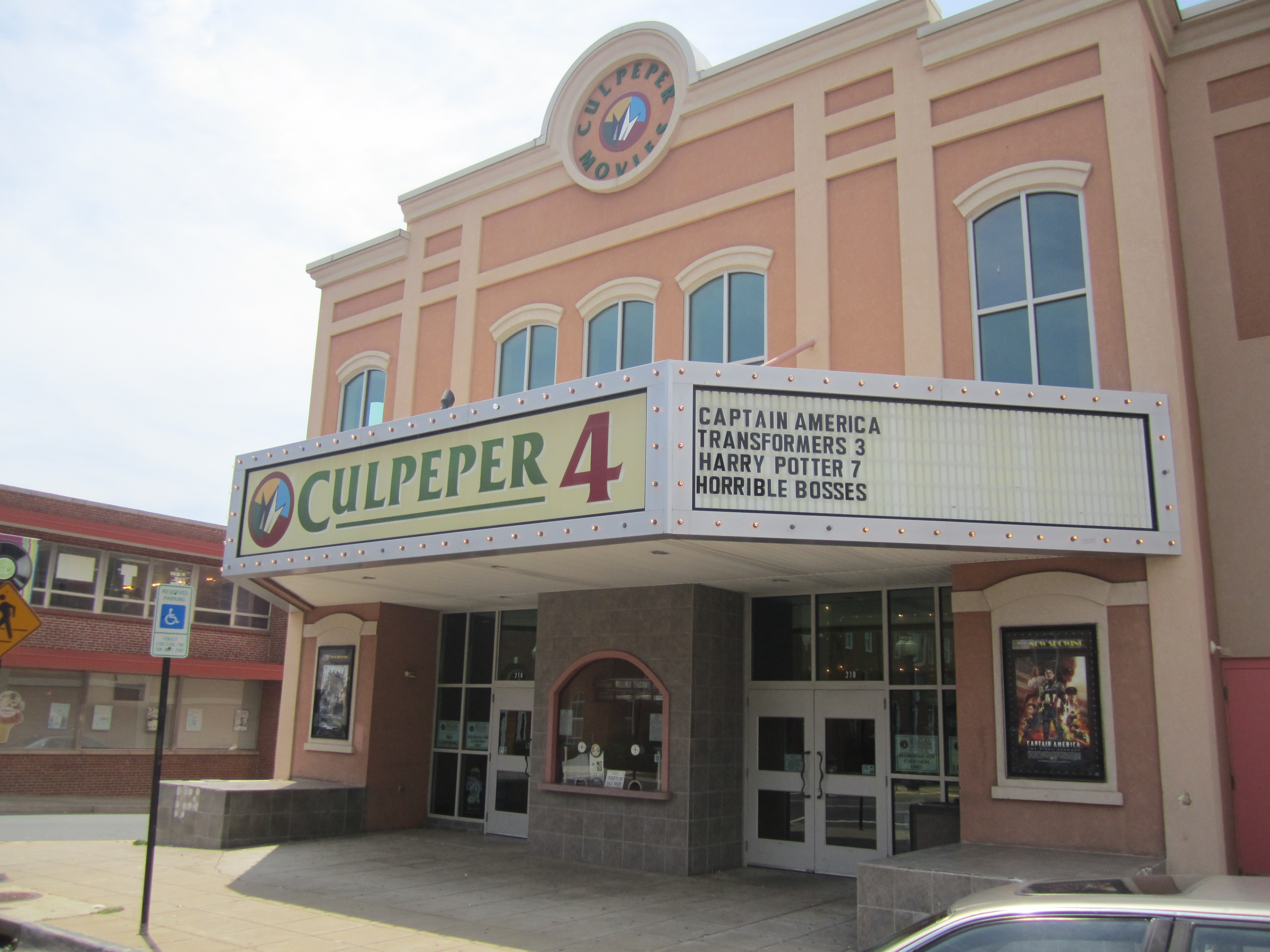 I took photo of Culpeper4 Theater with Canon camera in Culpeper, VA.